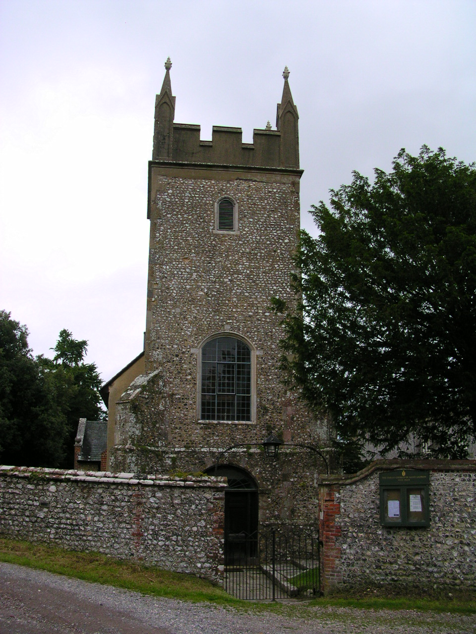 St. Andrew's Church, West Dean, West Sussex, England.